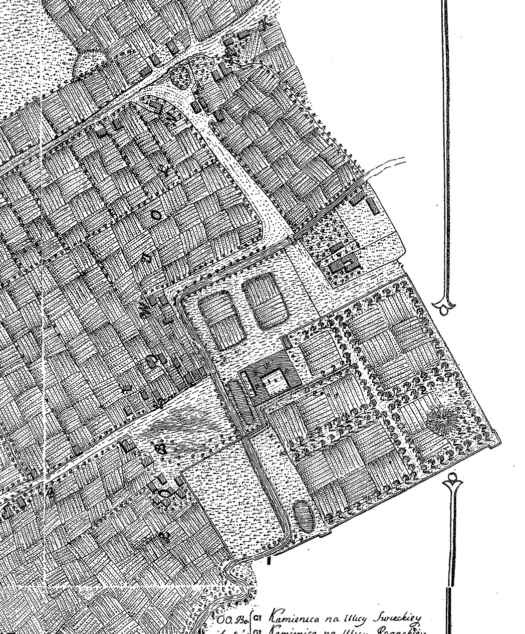 The portion of the Kołłątajowski's Plan (from 1785) with the outline of the farm buildings in Łobzow